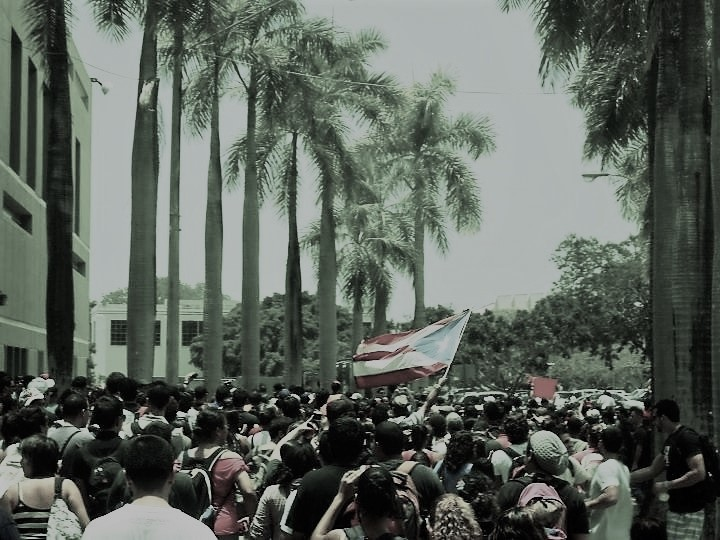 Asamblea Autoconvocada en el Recinto de Mayaguez.